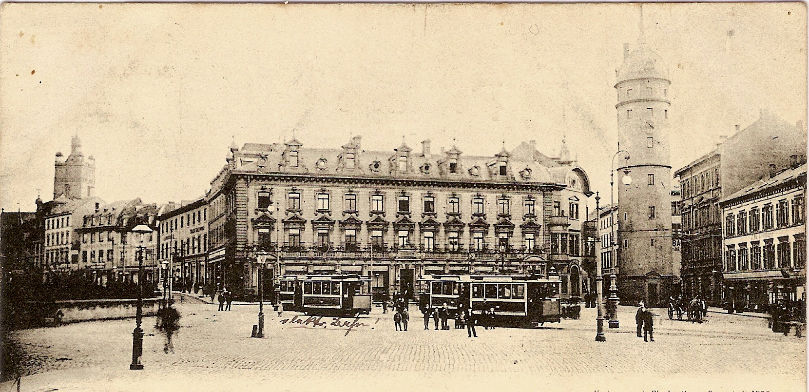 Darmstadt (Germany). Centre of town with "Weißer Turm" (White Tower)